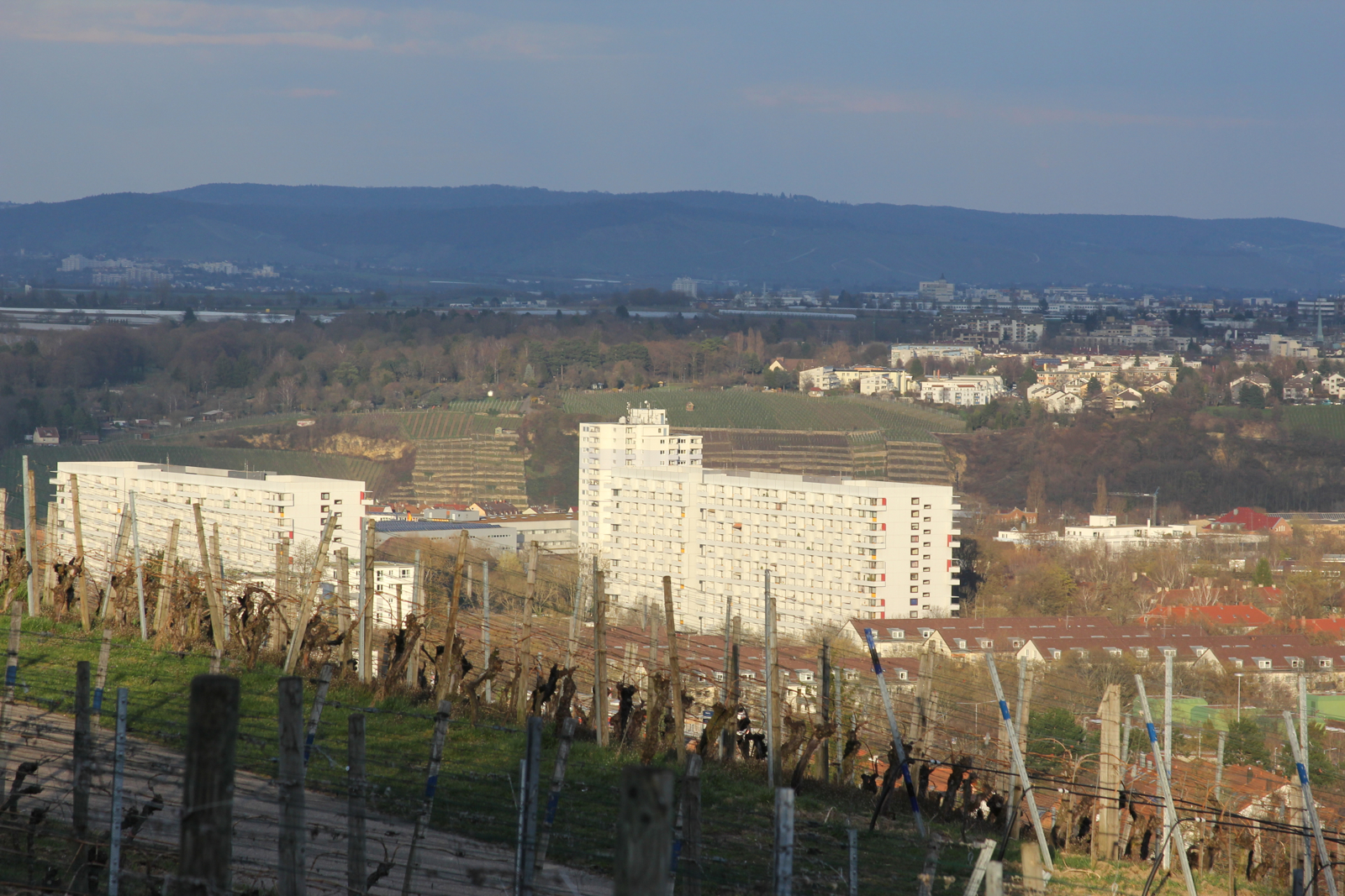 District Hallschlag in the city of Stuttgart, Germany